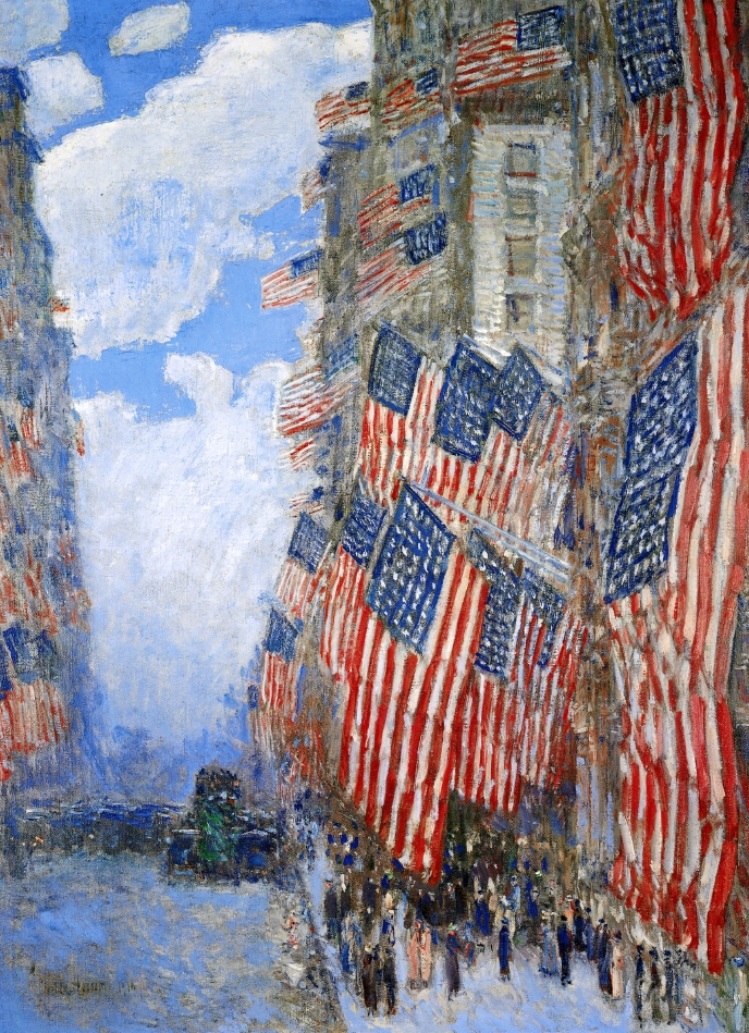 (The Greatest Display of the American Flag Ever Seen in New York, Climax of the Preparedness Parade in May)